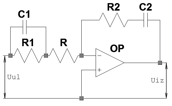 Regulator proporcionalno-integralno-diferencijalnog dejstva